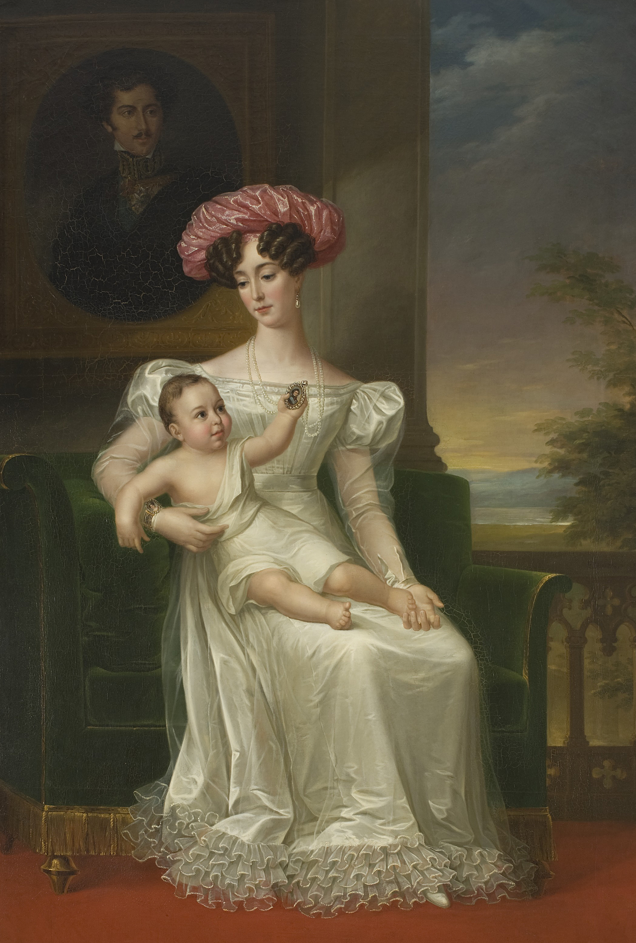 Crown Princess Josephine of Sweden with eldest son Charles